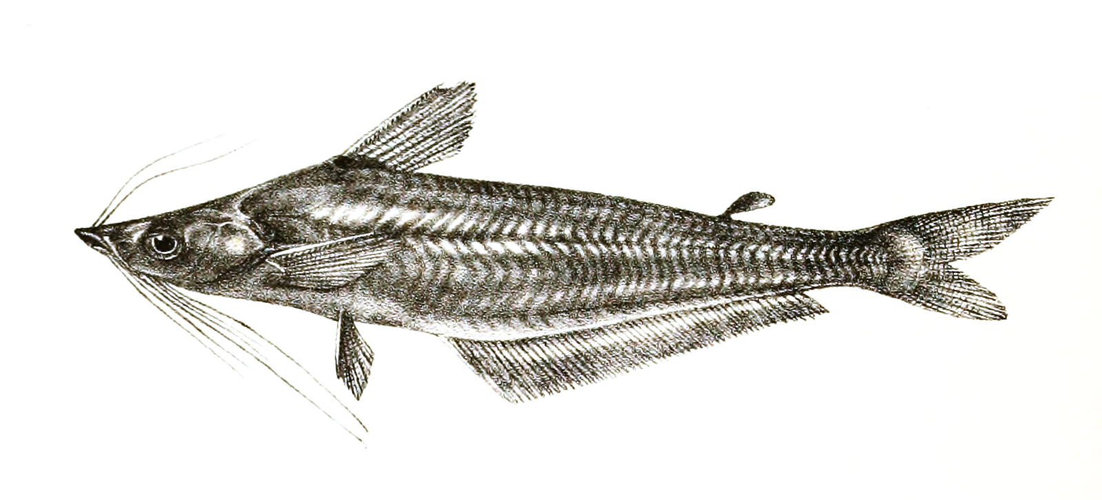 Neotropius acutirostris. The original plates showed the fishes facing right and have been flipped here. Pseudotropius acutirostris